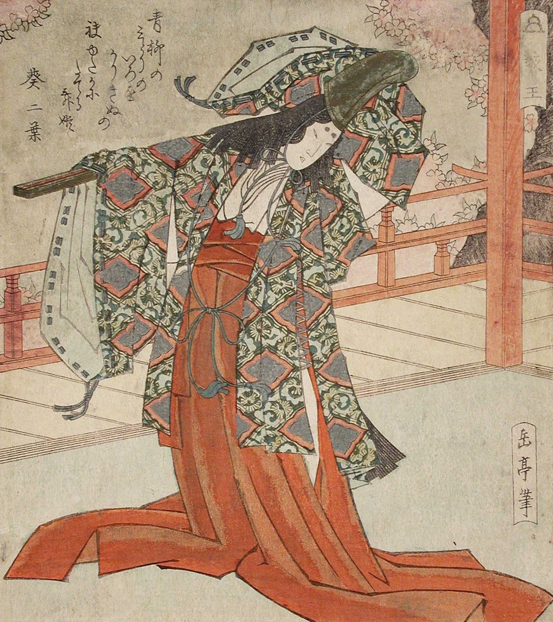 Japan, 19th century Prints; woodcuts Color woodblock print; surimono, with silver, gold, and brass Image: 8 1/8 x 7 1/4 in. (20.6 x 18.4 cm) Paper: 8 1/8 x 7 1/4 in. (20.6 x 18.4 cm) Gift of Caroline and Jarred Morse (M.80.219.52) Japanese Art